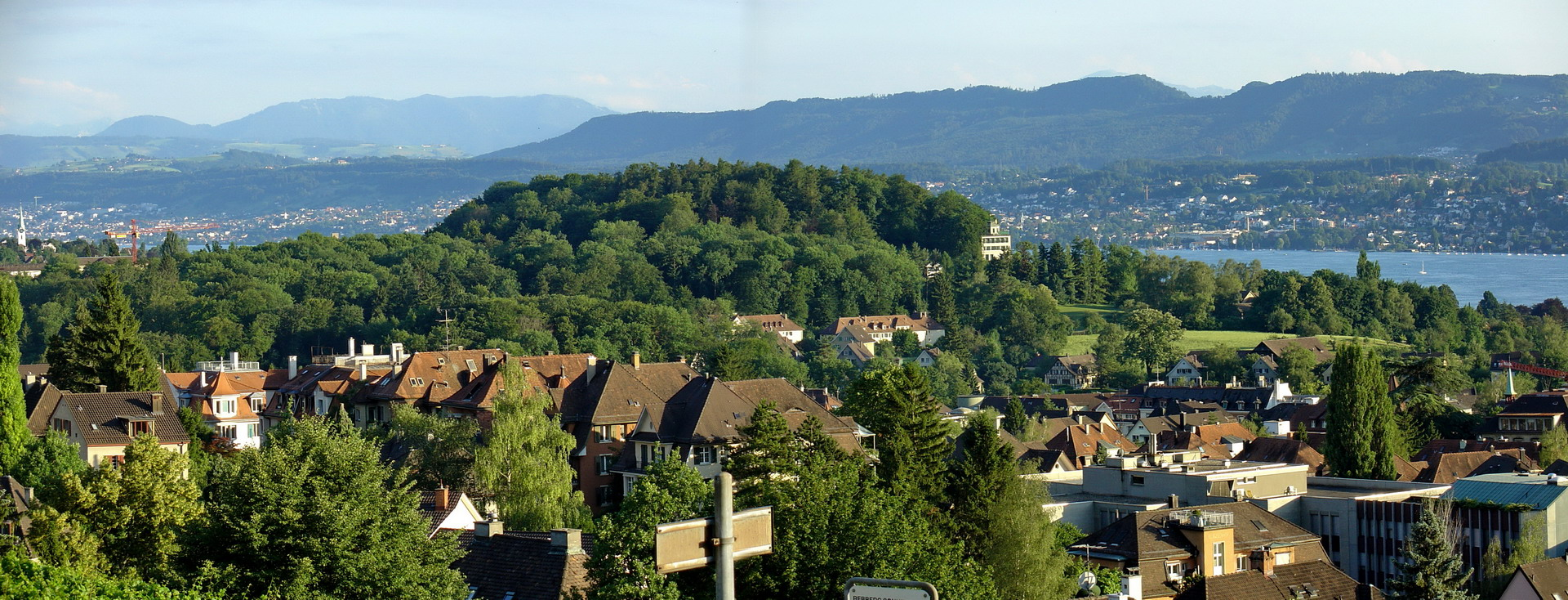 Zürich, Weinegg quarter in Riesbach, district 8 : «Burghölzli» hill (in the middle), Zürichsee and Albis hills in the background, seen from Sonnenberg.